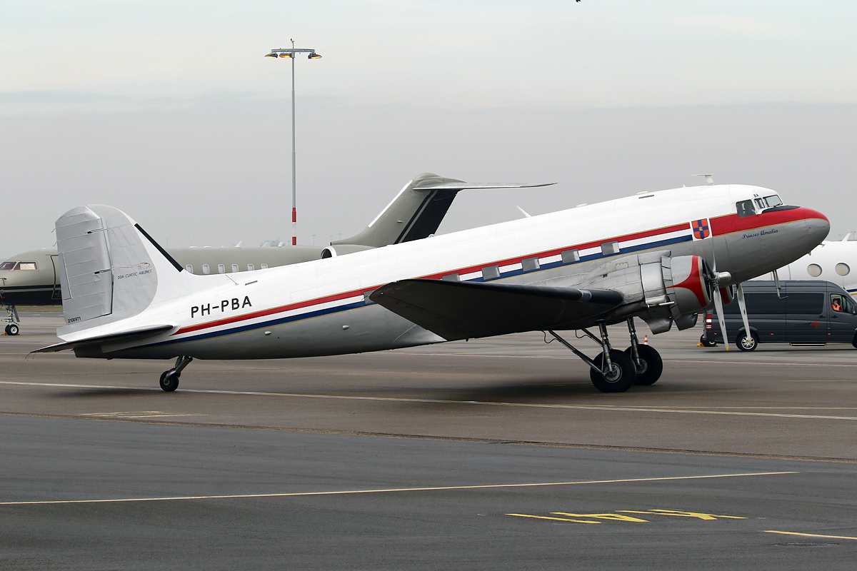 Eham, Schiphol